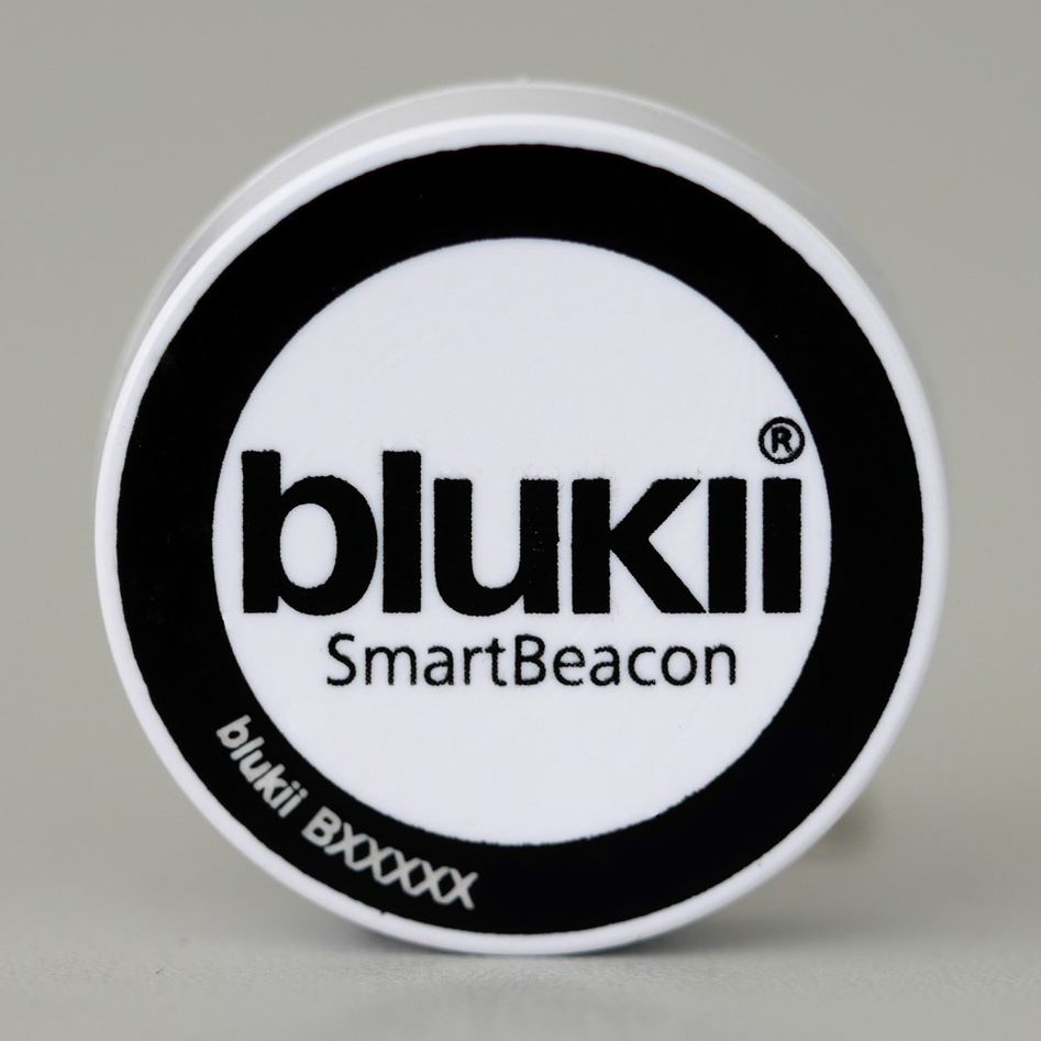 Application engineering of an iBeacon in a circular plastic case.